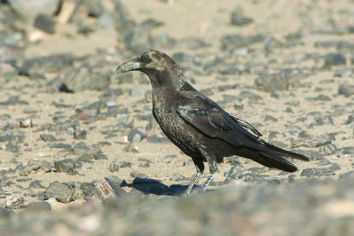 Brown-necked Raven - Merzouga - Morocco 07_3411